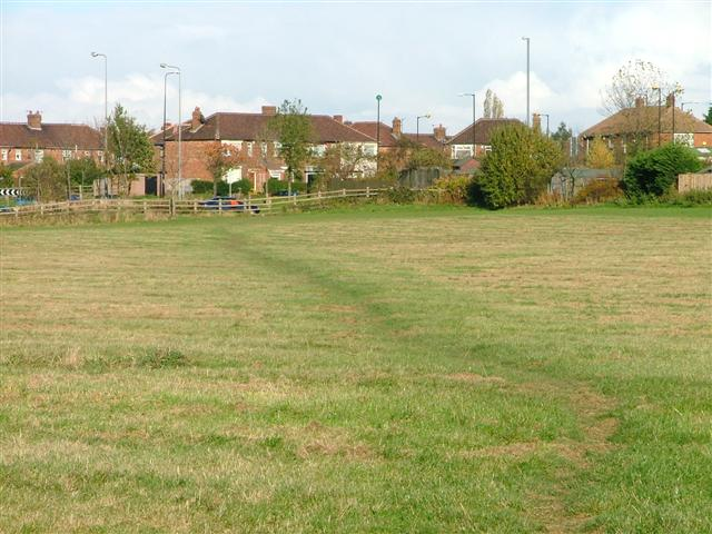 Open Space, Whinney Banks. Public open land created along the east bank of Blue Bell Beck between the Whinney Banks housing estate and the A19. In the photo a footpath formed through use leads from the car parking facility.